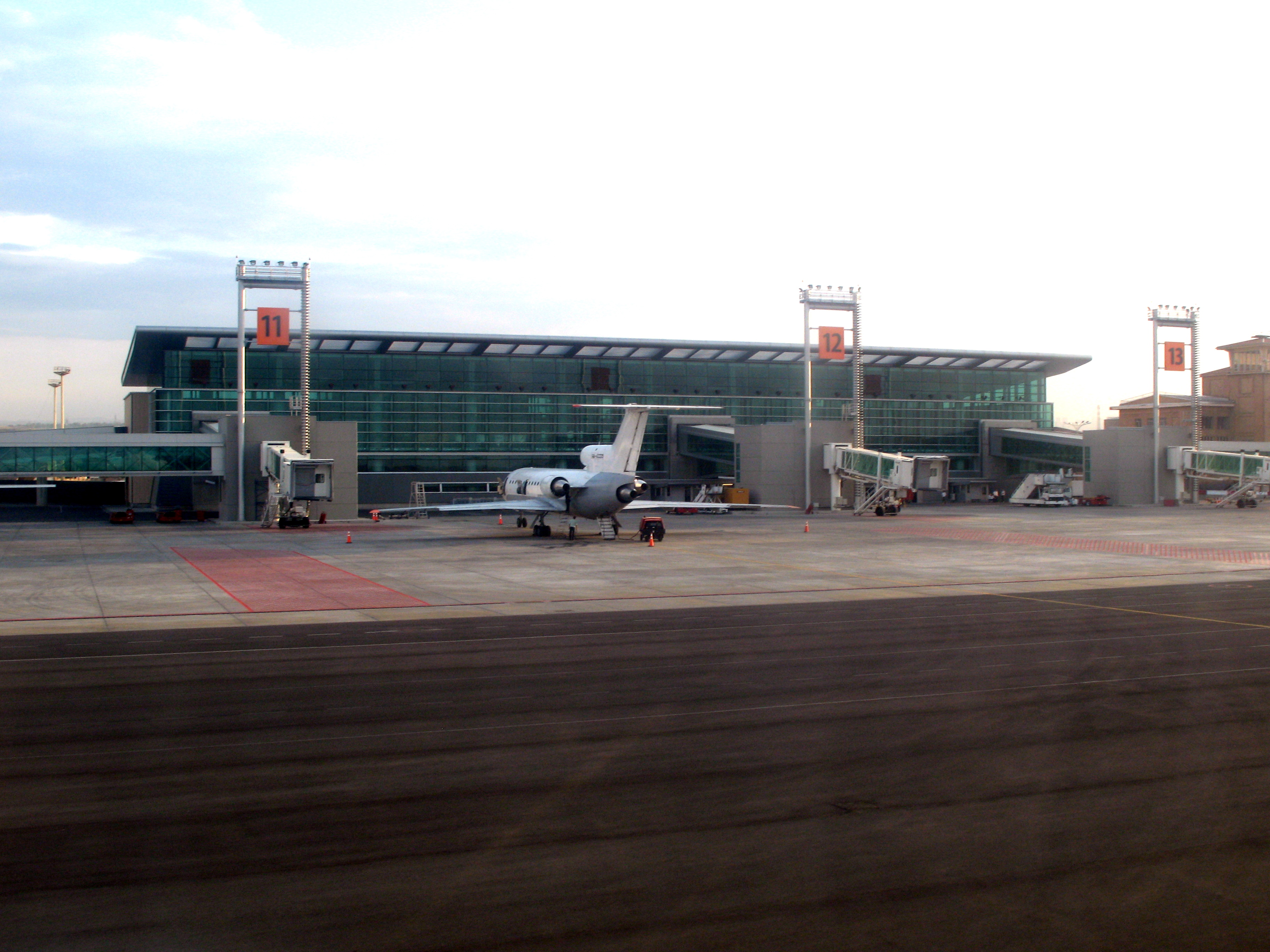 Zvartnots airport's new terminal as seen from Aeroflot Il-86